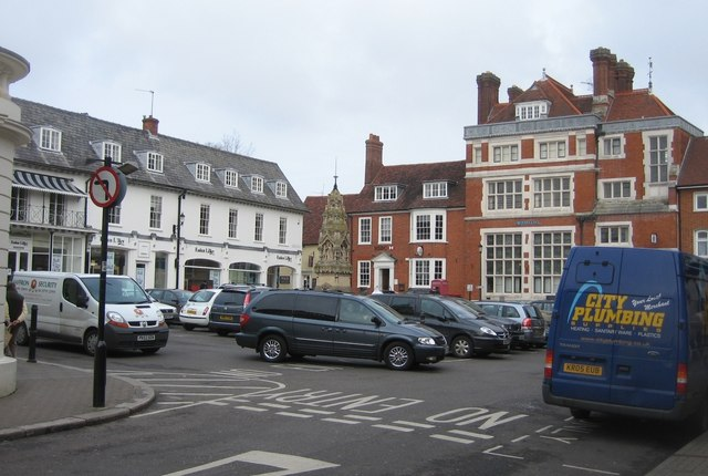 Saffron Walden market square As viewed from the southwest corner by the public library.